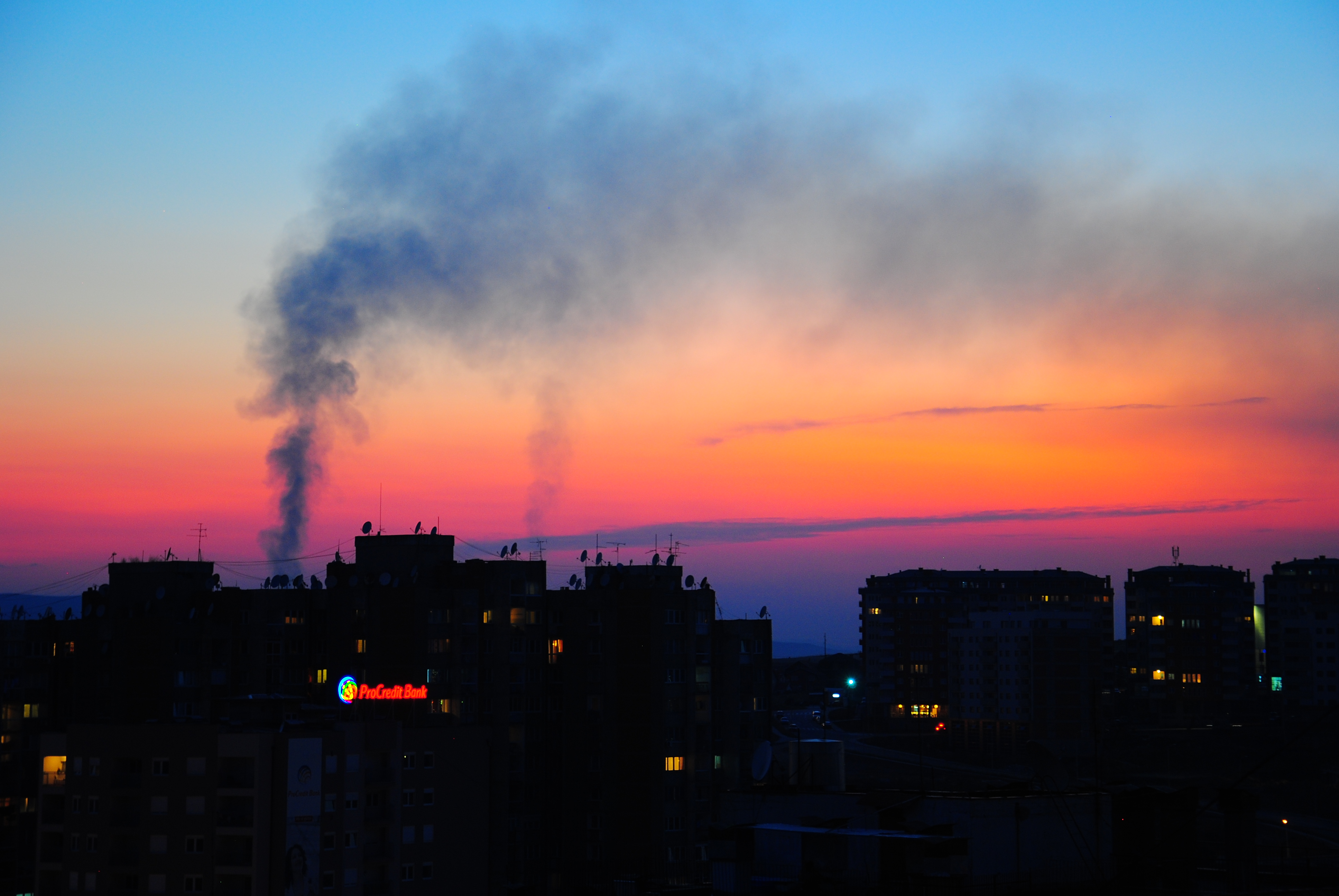 Obiliq power termocentral that is polluting the city(Prishtina)